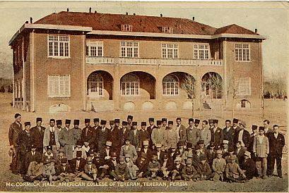 American College Tehran. Later named Alborz Highschool. Picture taken circa 1930 in Tehran.